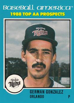 Professional baseball player German Gonzalez